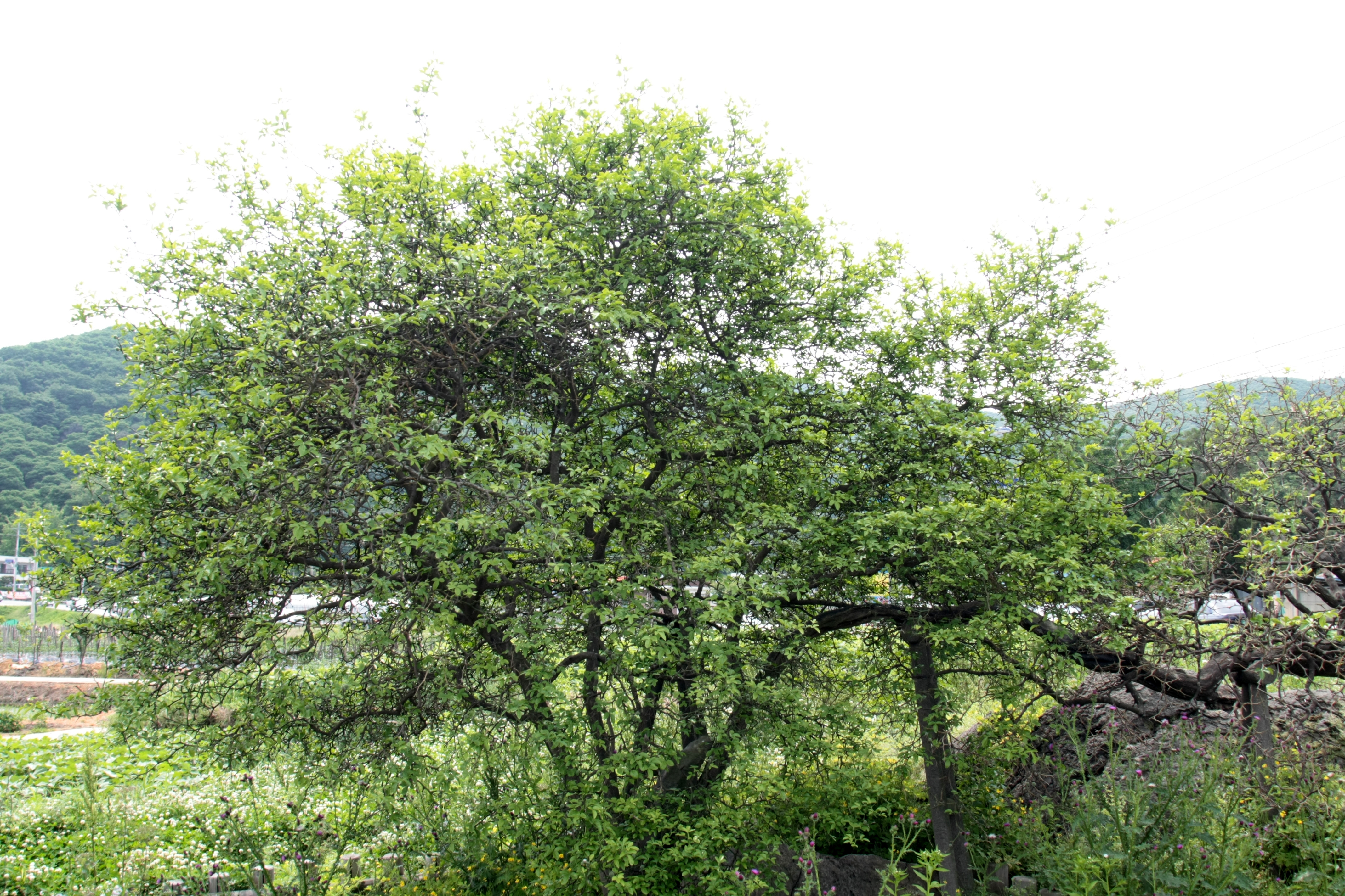 Poncirus trifoliata in Sagi-ri, Ganghwa, Korea